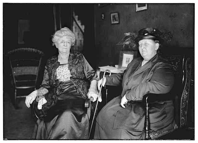 Mrs. John Sherwin Crosby (Nellie Fassett) and Elisabeth Marbury